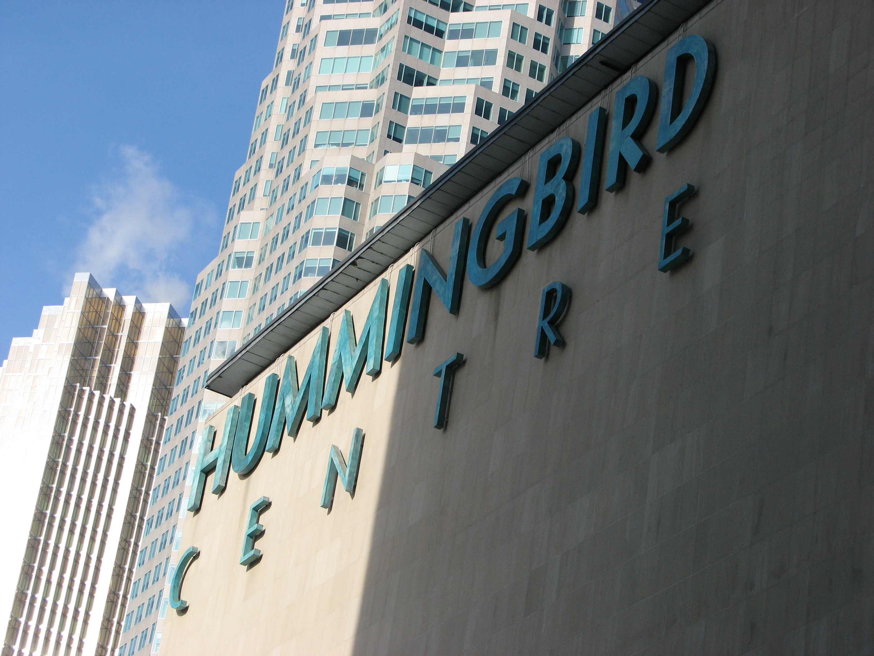 Hummingbird Centre (formerly the O'Keefe Centre, now the Sony Centre for the Performing Arts). Toronto, Canada.Hummingbird Centre, Toronto